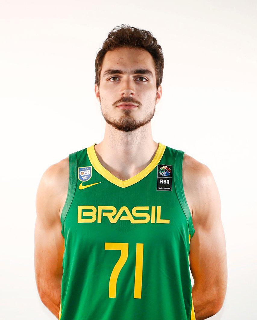 Leonardo Demetrio PF Brazilian National Team